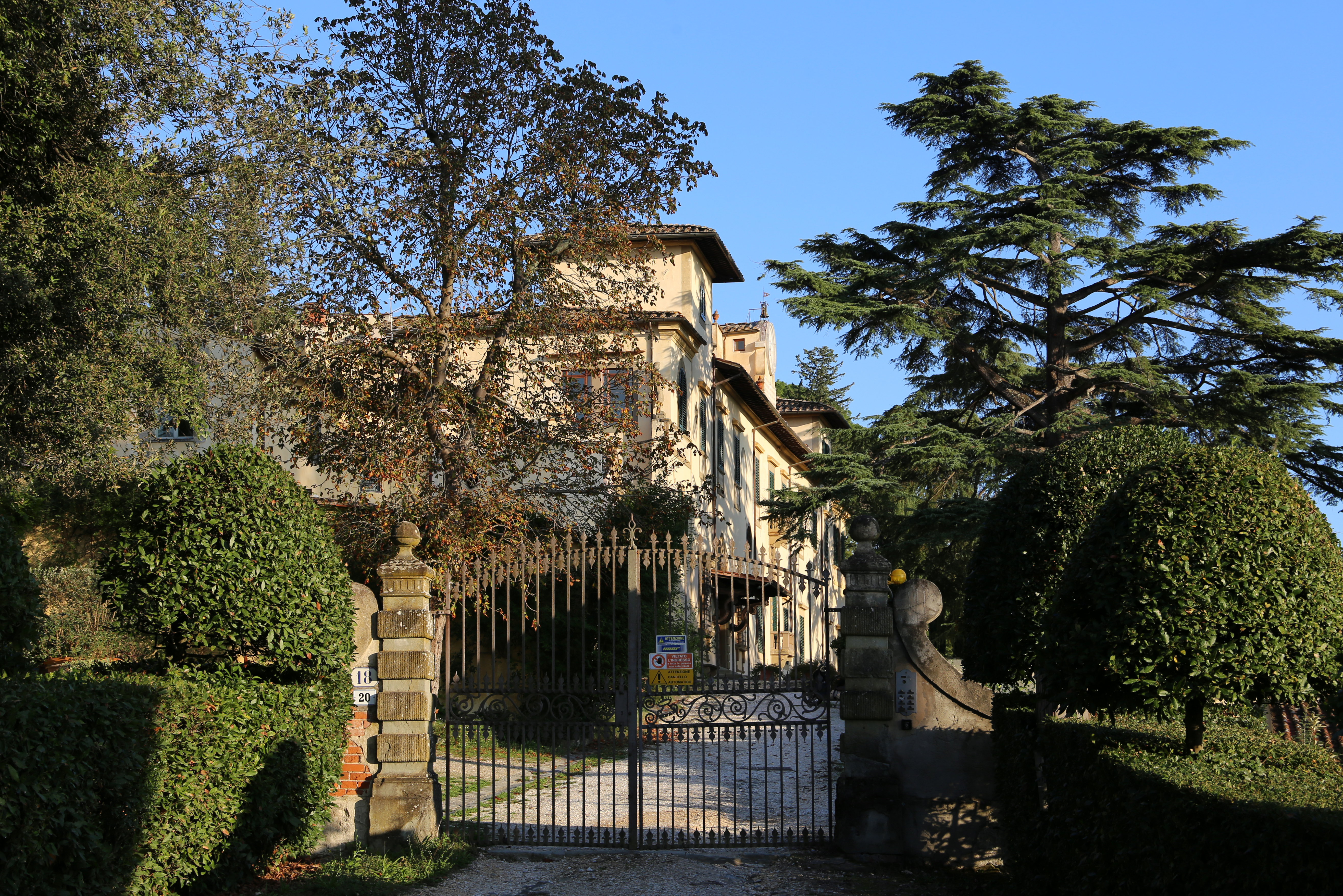 Villa Il Querceto